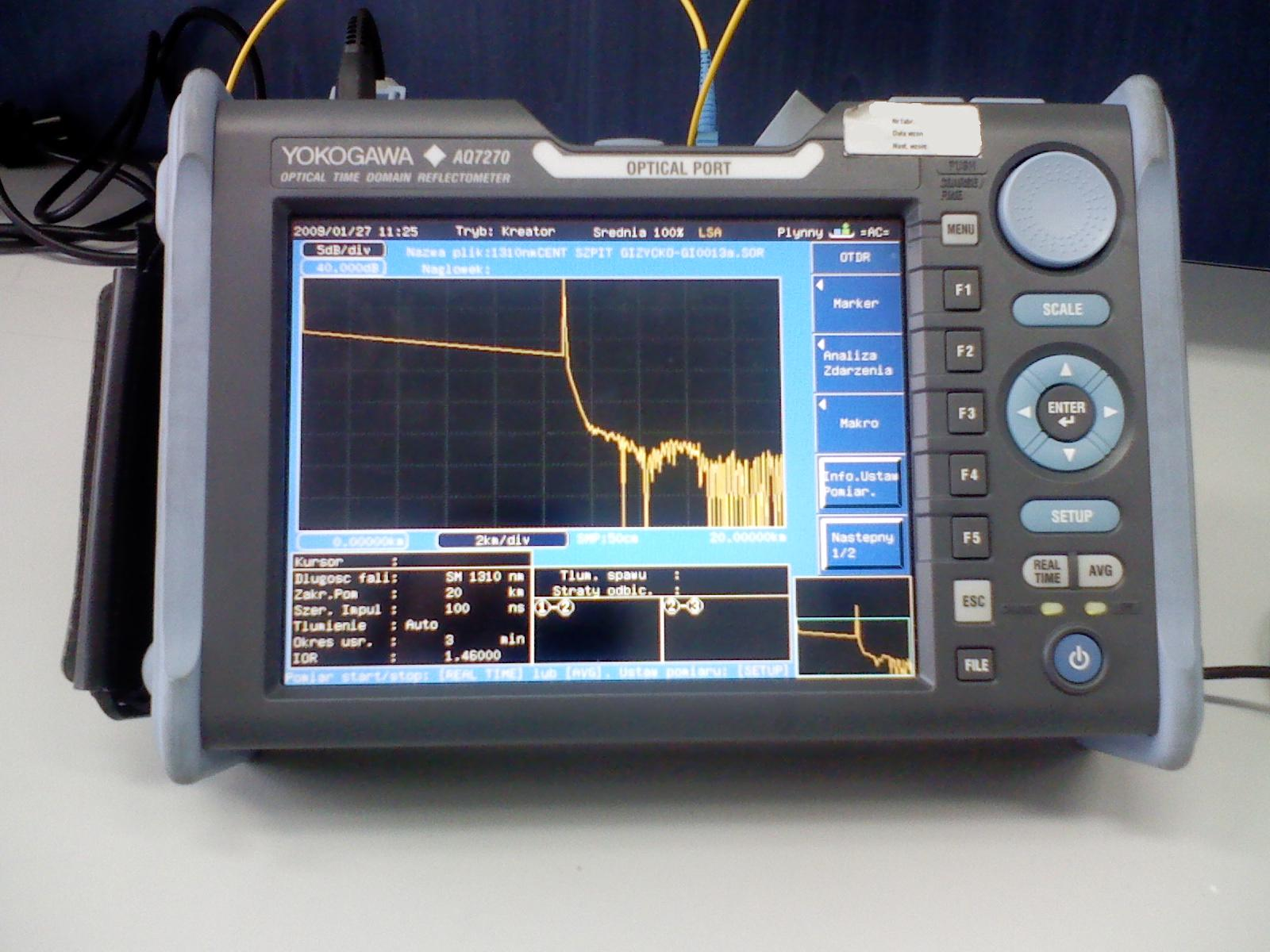 Optical time-domain reflectometer Yokogawa AQ7270 on the calibration stand.